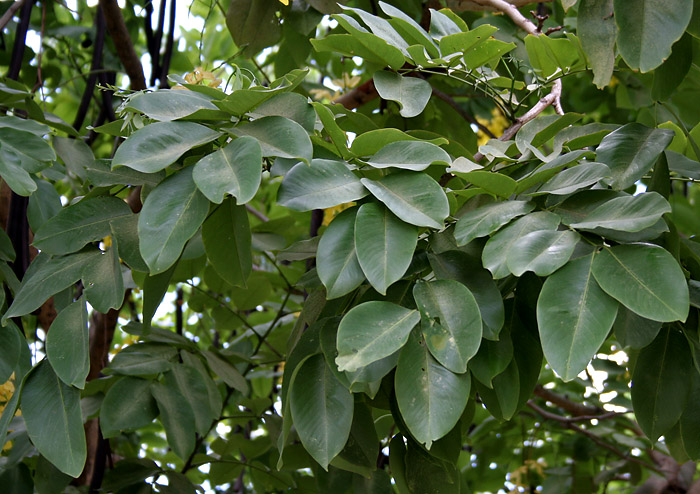 Amaltas Cassia fistula in Hyderabad , India.